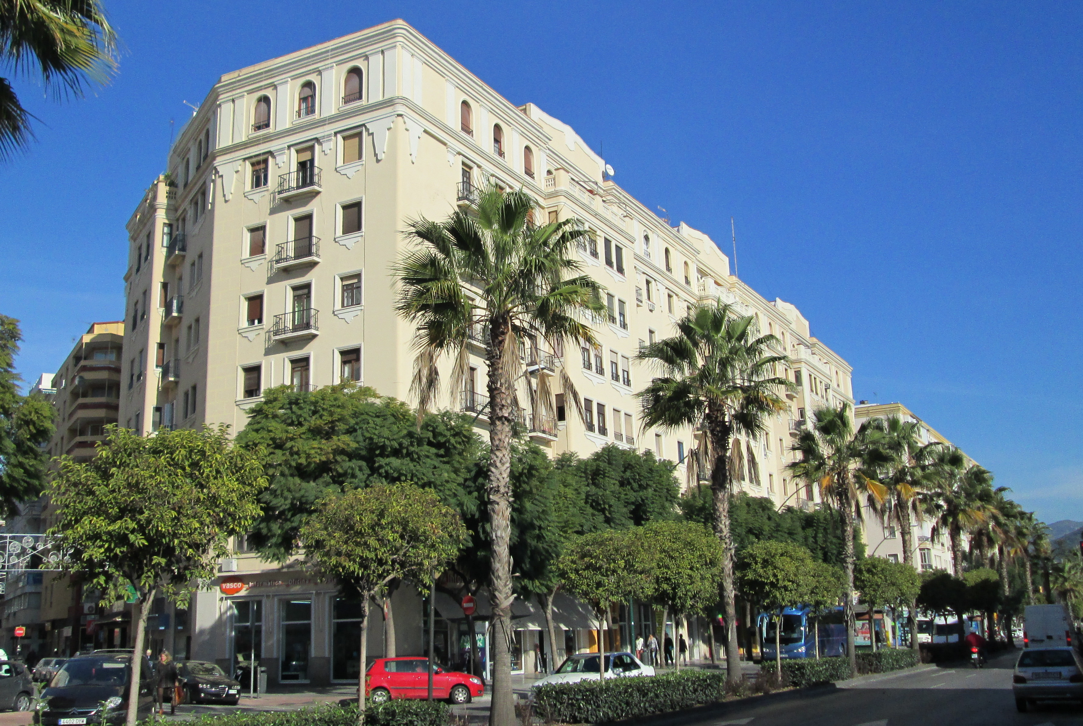 Building in Avenida Manuel Agustín Heredia nos. 10-14